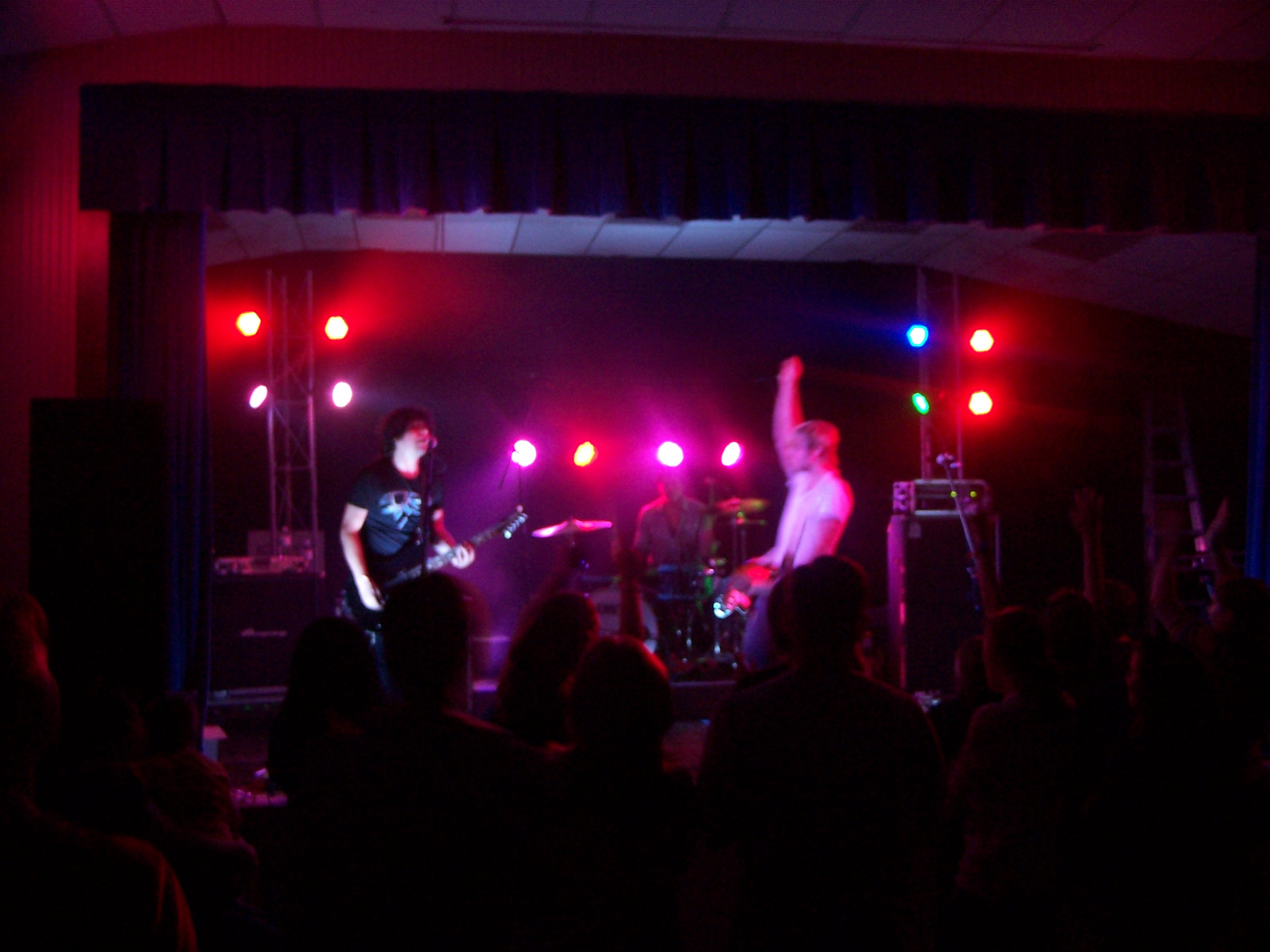 Eleventyseven in Pittsfield Mass.